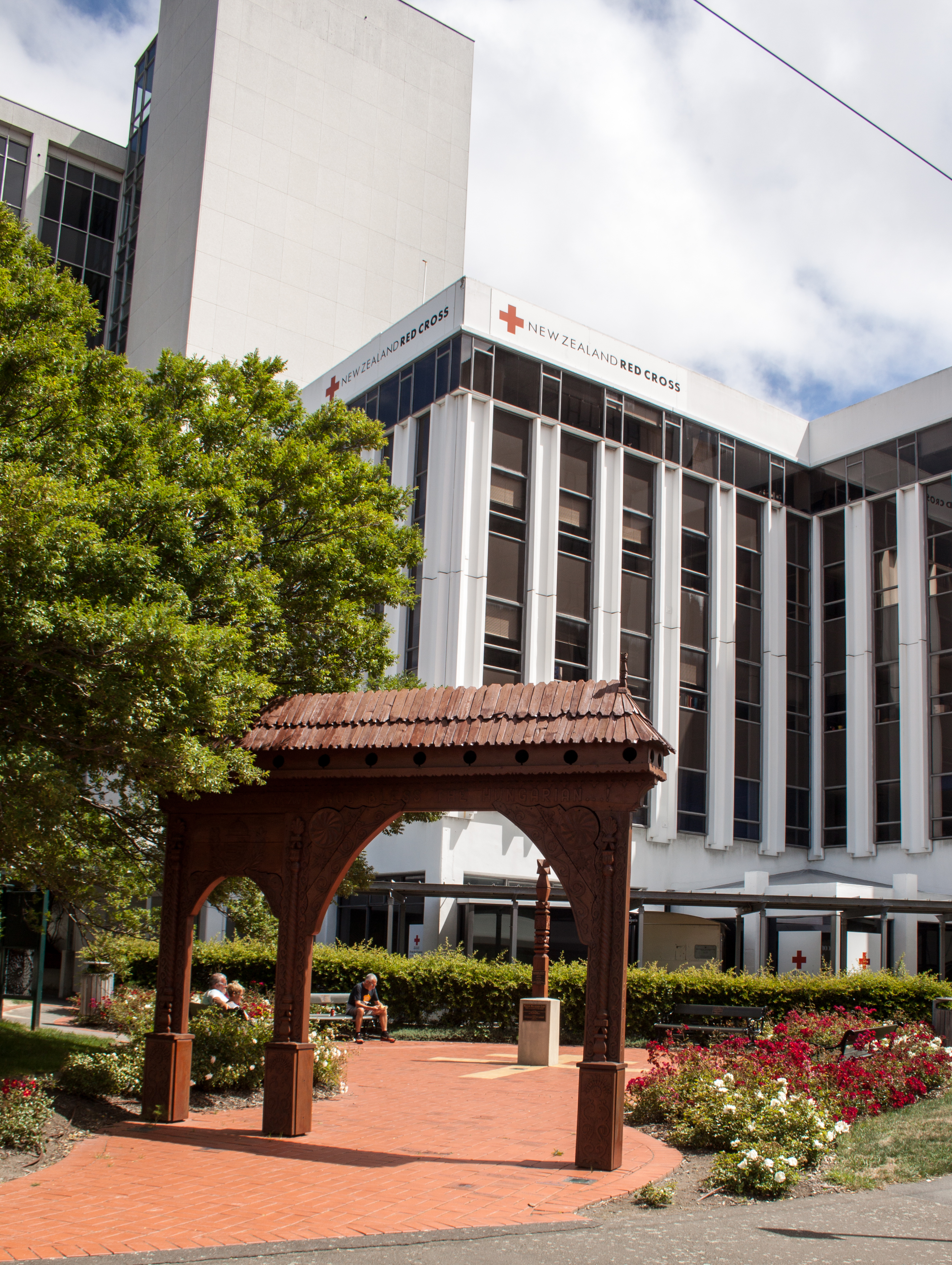 Wellington, Hungarian Garden - a small park in the town